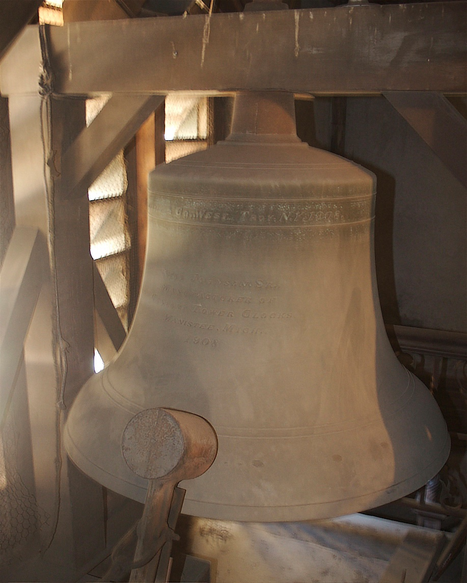 Century clock bell from Century Tower Clocks of Nels Johnson in Manistee, Michigan